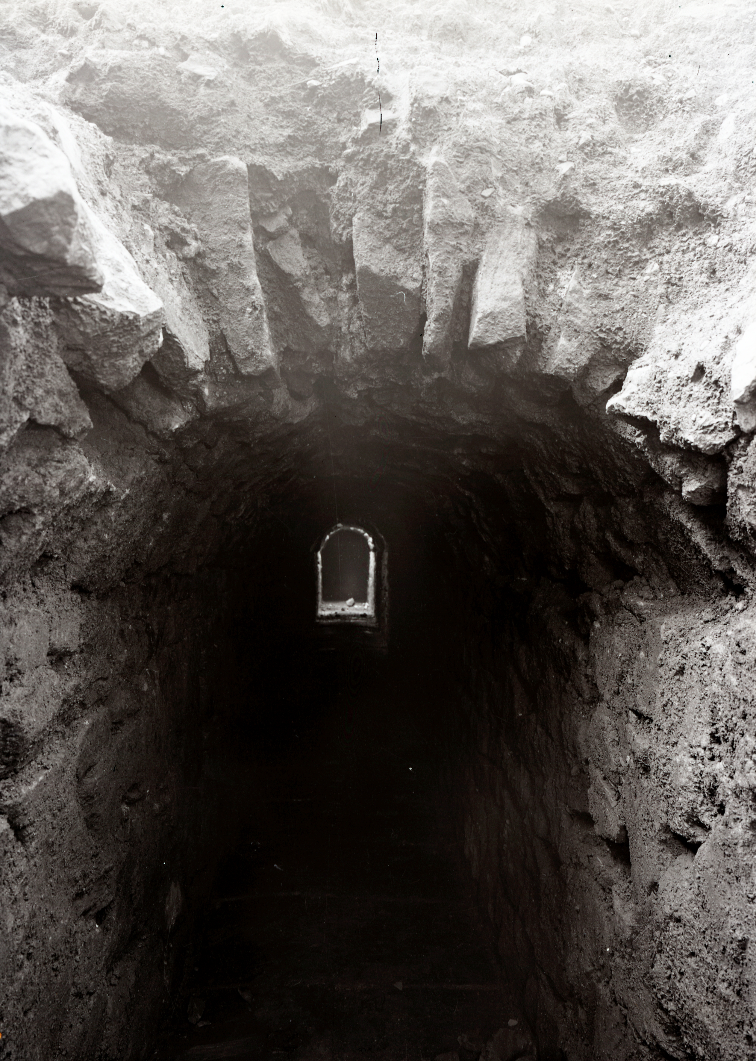 View into one of the Emona tunnels